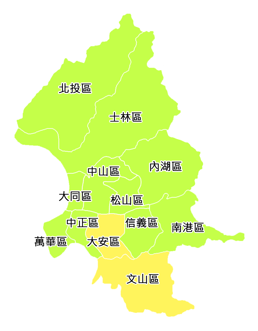 Graphical Depiction of the Election Results of the 1994 Taipei Municipality Mayoral Election.